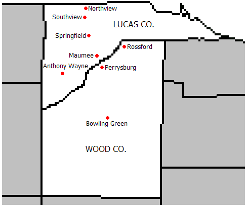 The county outlines were made by the US Census and then modified by myself to display the school locations.